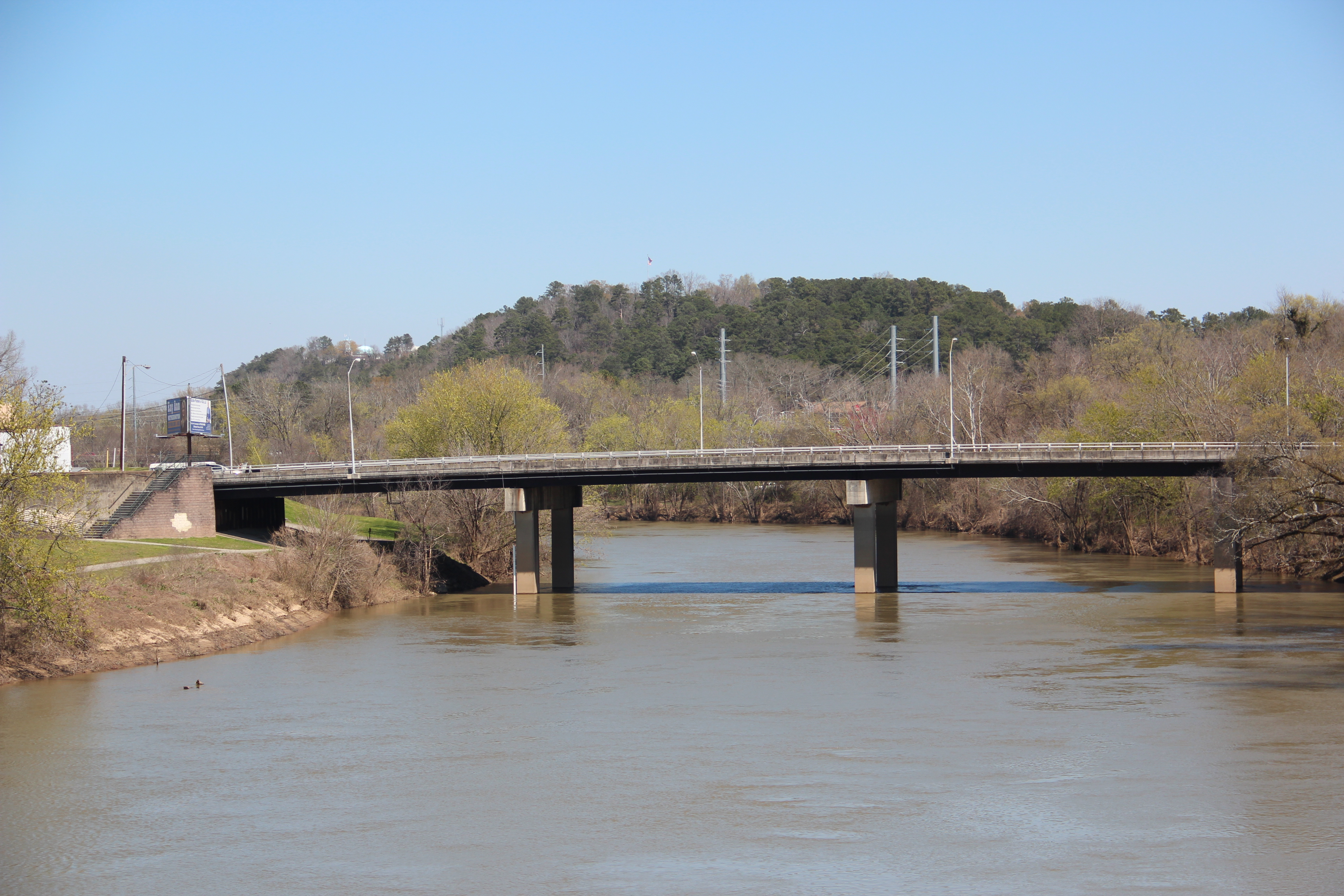 Jackson Hill (Georgia) viewed from Chief John Ross Pedestrian Bridge